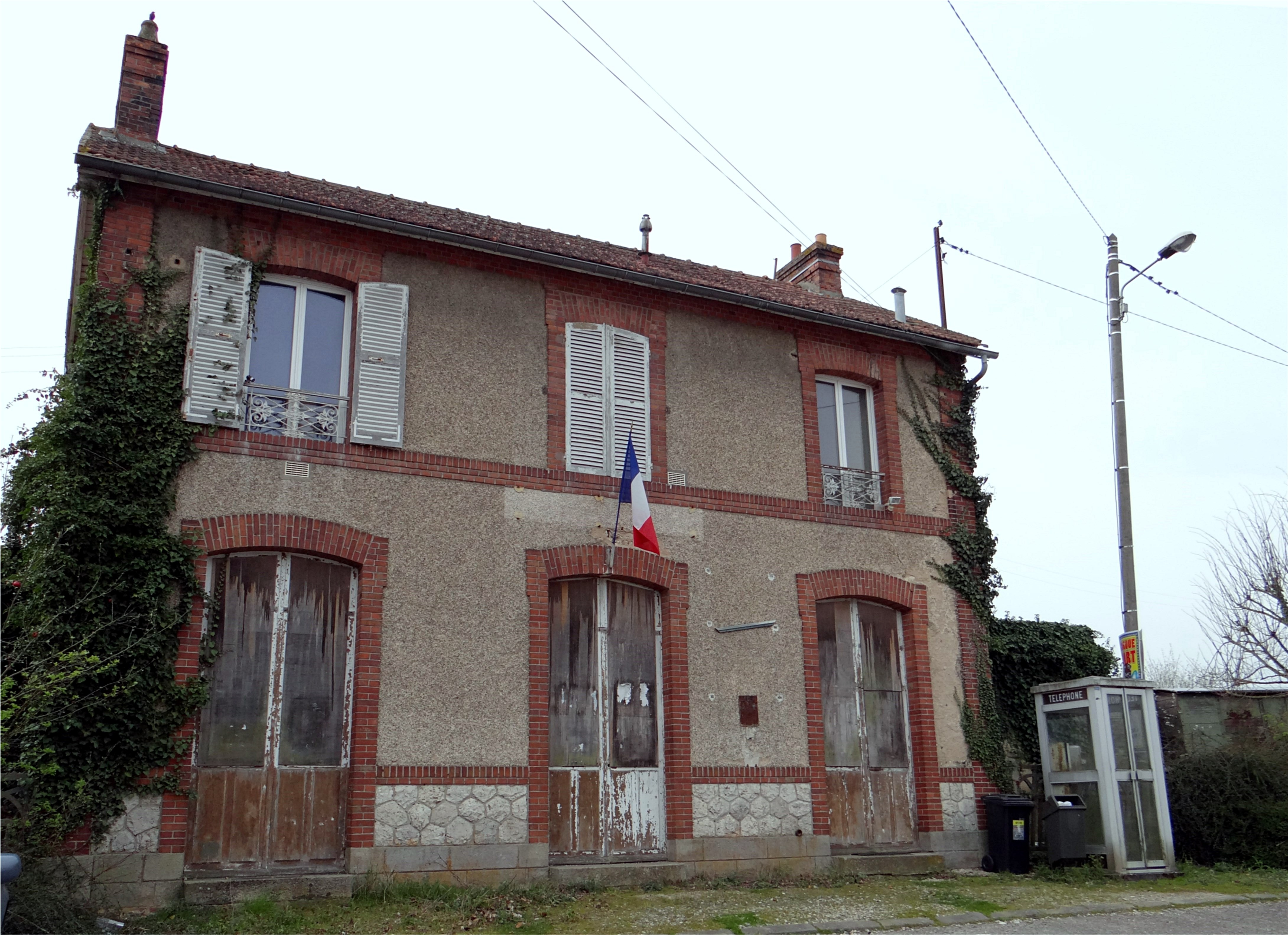 Old railway station (Gallardon-Pont) on the Auneau City line Dreux Bailleau-Armenonville, Eure-et-Loir, France.